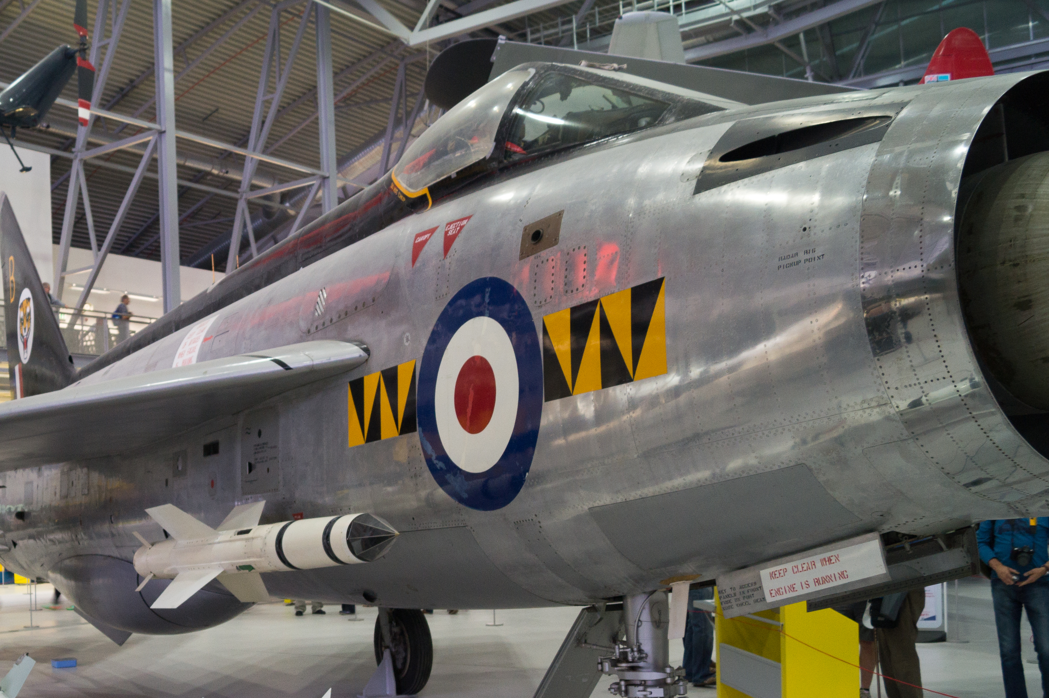 Close-up of XM135 fuselage at Imperial War Museum, Duxford